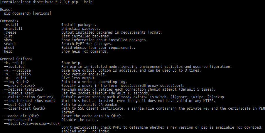 pip --help